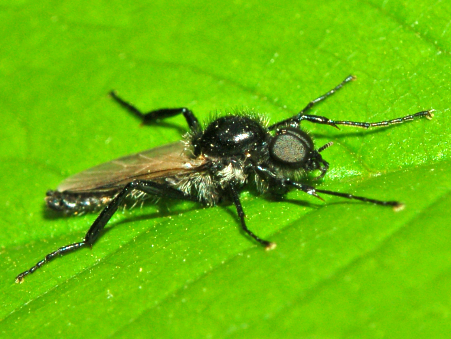 Bibio hortulanus, male. Cerreto Ratti, Alessandria, Italy